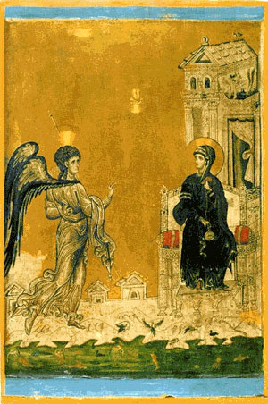 Annunciation. Byzantyne icon fom St. Catheryne mon. (Synay)